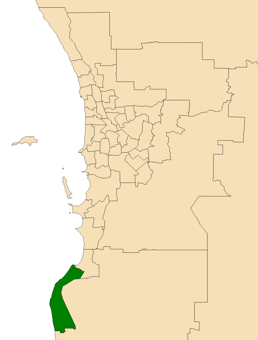 Location of the electoral district of Dawesville in the Perth metropolitan area, Western Australia as of the 2017 WA state election.